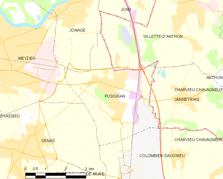 Map of French municipality